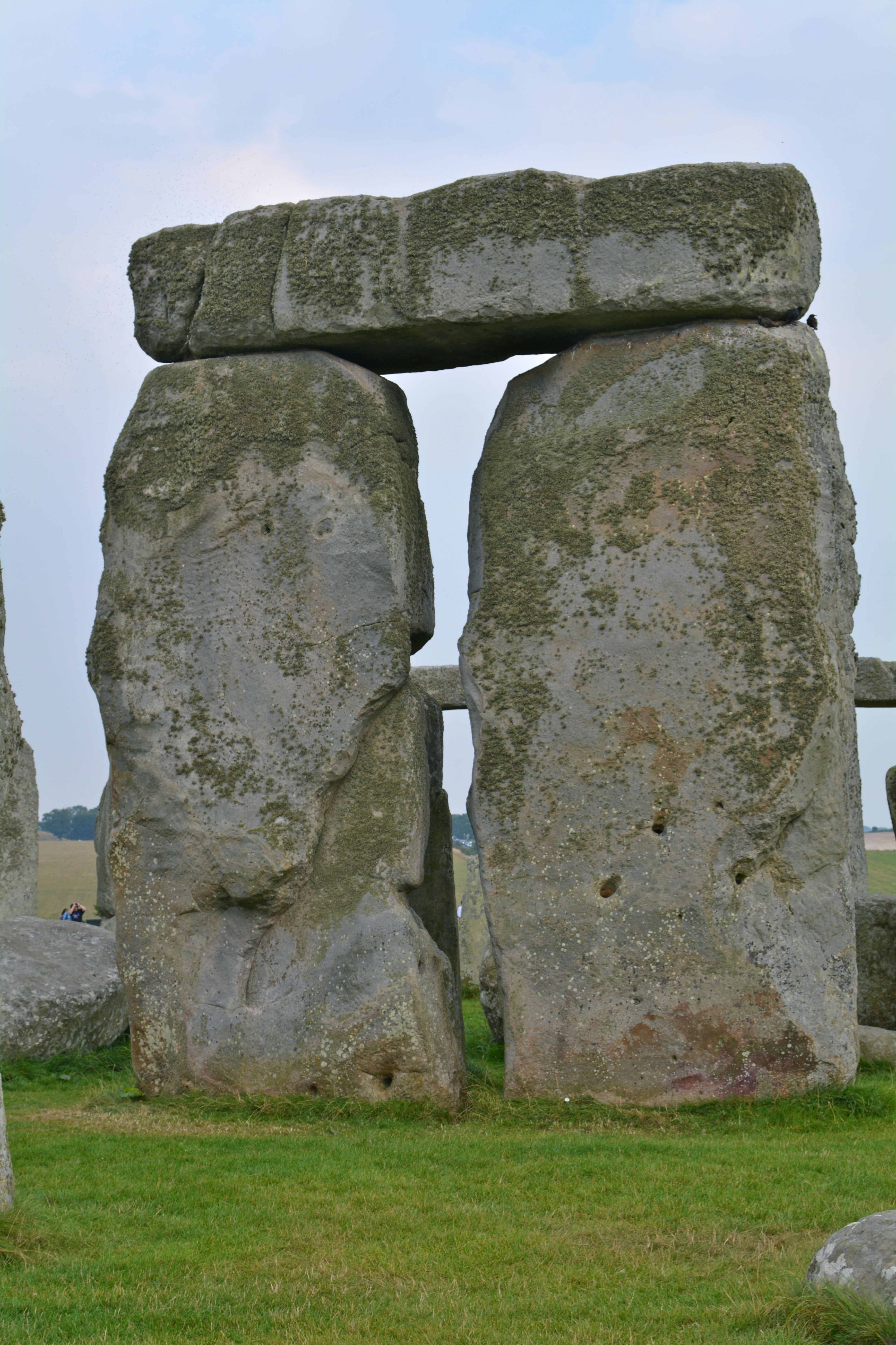 A massive stone trilithon in Stonehenge